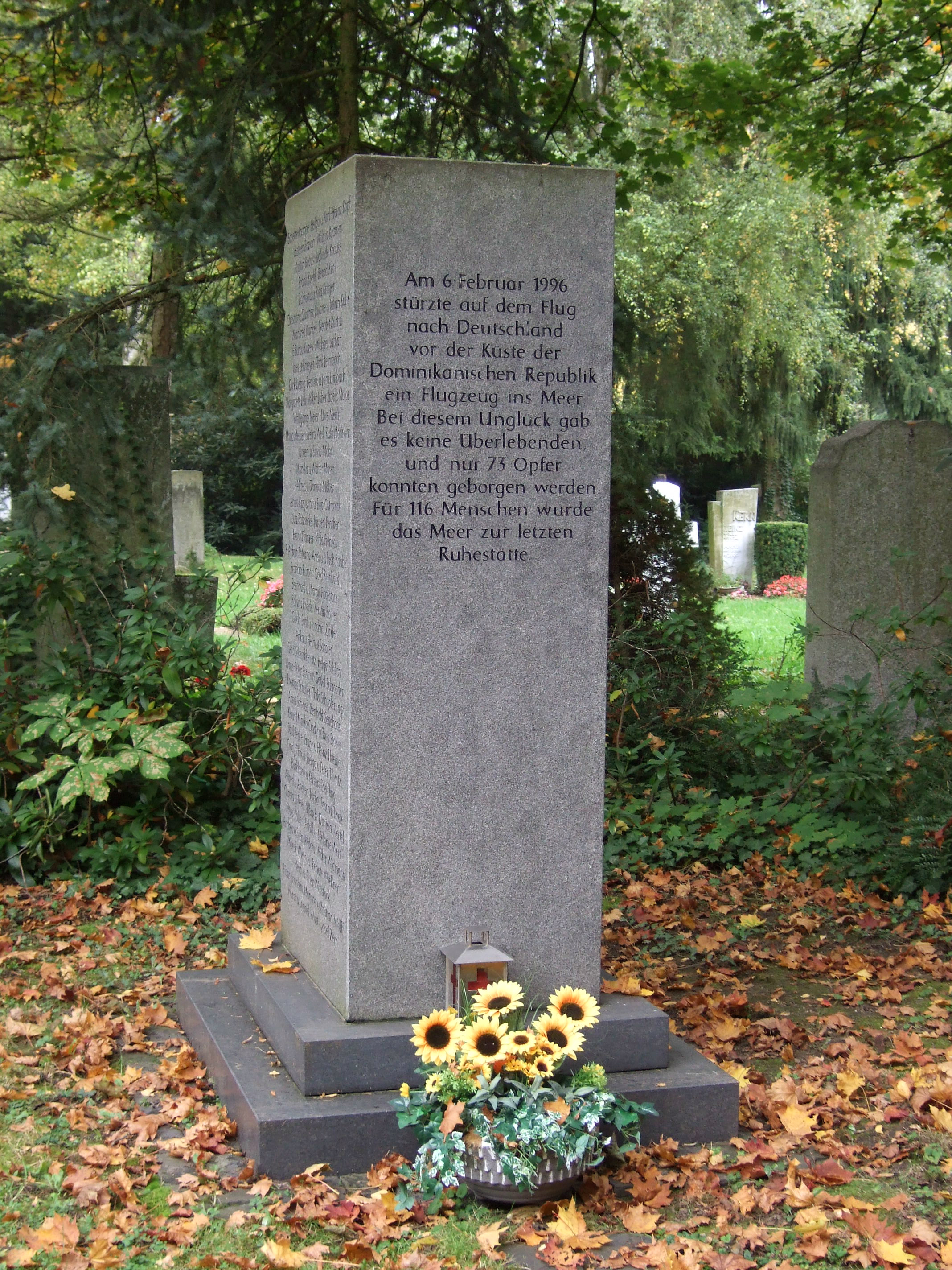 Memorial for the victims of Birgenair Flight 301 on the main cemetery of Frankfurt, Germany. Frankfurt was the destination of the doomed flight.